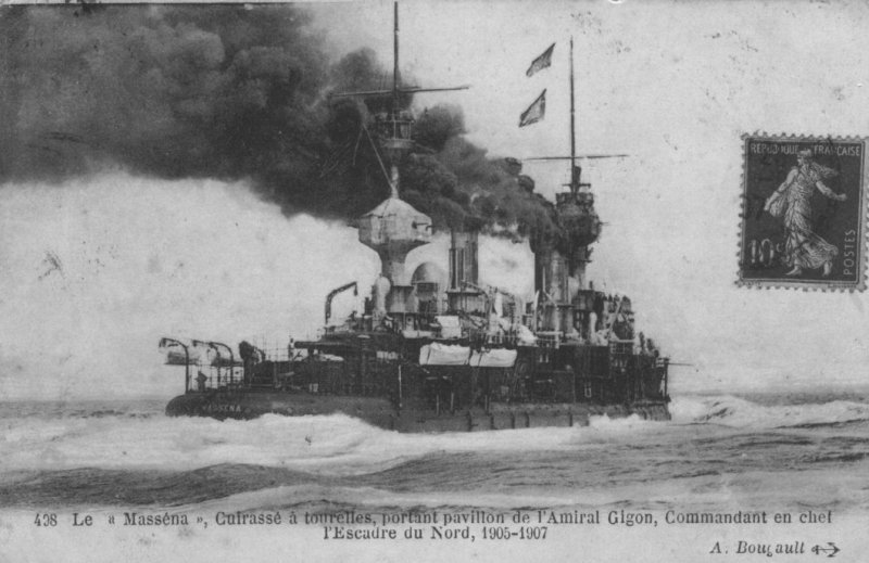 French battleship Masséna